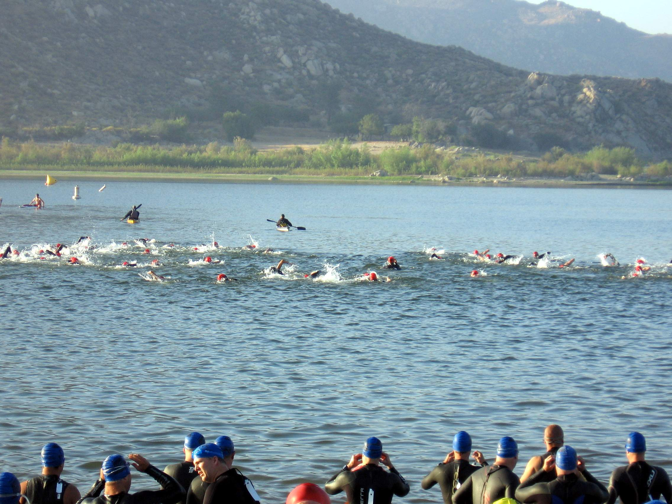 2009 Big Rock Triathlon at Lake Perris, in the Lake Perris State Recreation Area, Southern California.